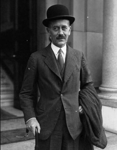 British diplomat Alexander Cadogan (1884-1968) as UK representative to the League of Nations in 1933.